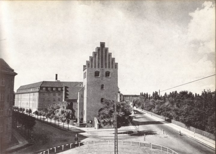 Vintage Photo of Kildevældskirken in Østerbro, Copenhagen, Denmark